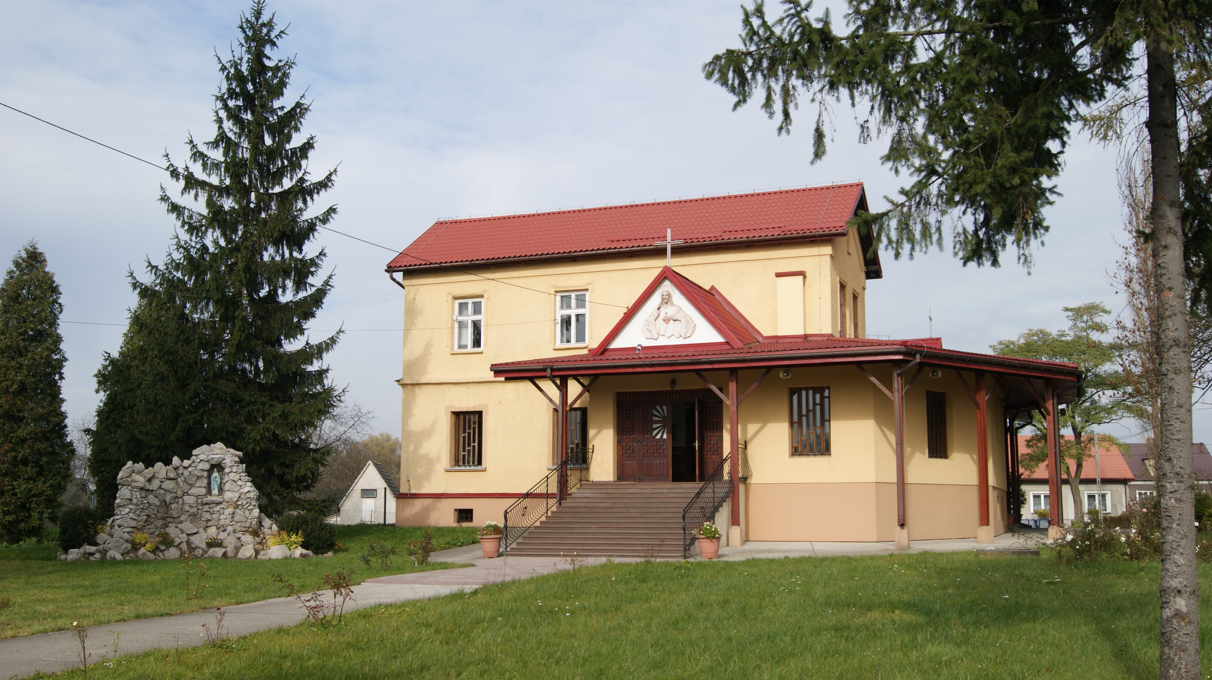 Sacred Heart of Jesus Church,1a Niewielka street,Lubocza,Nowa Huta,Krakow,Poland